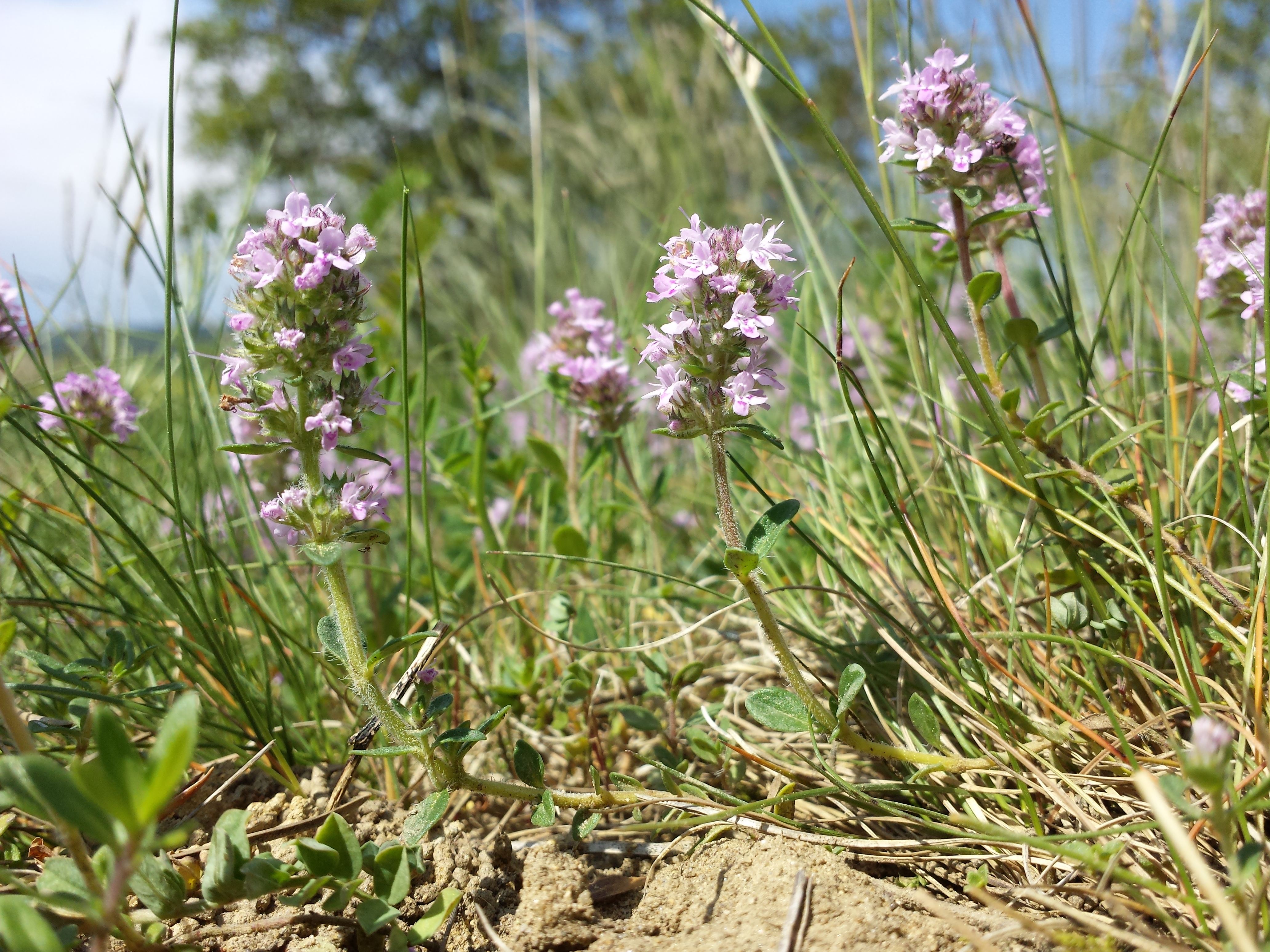 Habitus Taxonym: Thymus odoratissimus (cf., to Thymus pannonicus agg.) ss Fischer et al. EfÖLS 2008 ISBN 978-3-85474-187-9 Location: "In der Hölle" near Wetzleinsdorf, district Korneuburg, Lower Austria - ca. 250 m a.s.l. Habitat: dry grassland